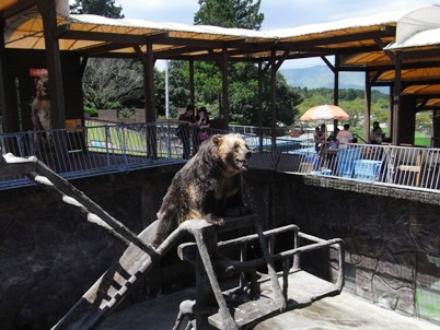 Aso Cuddly Dominion.